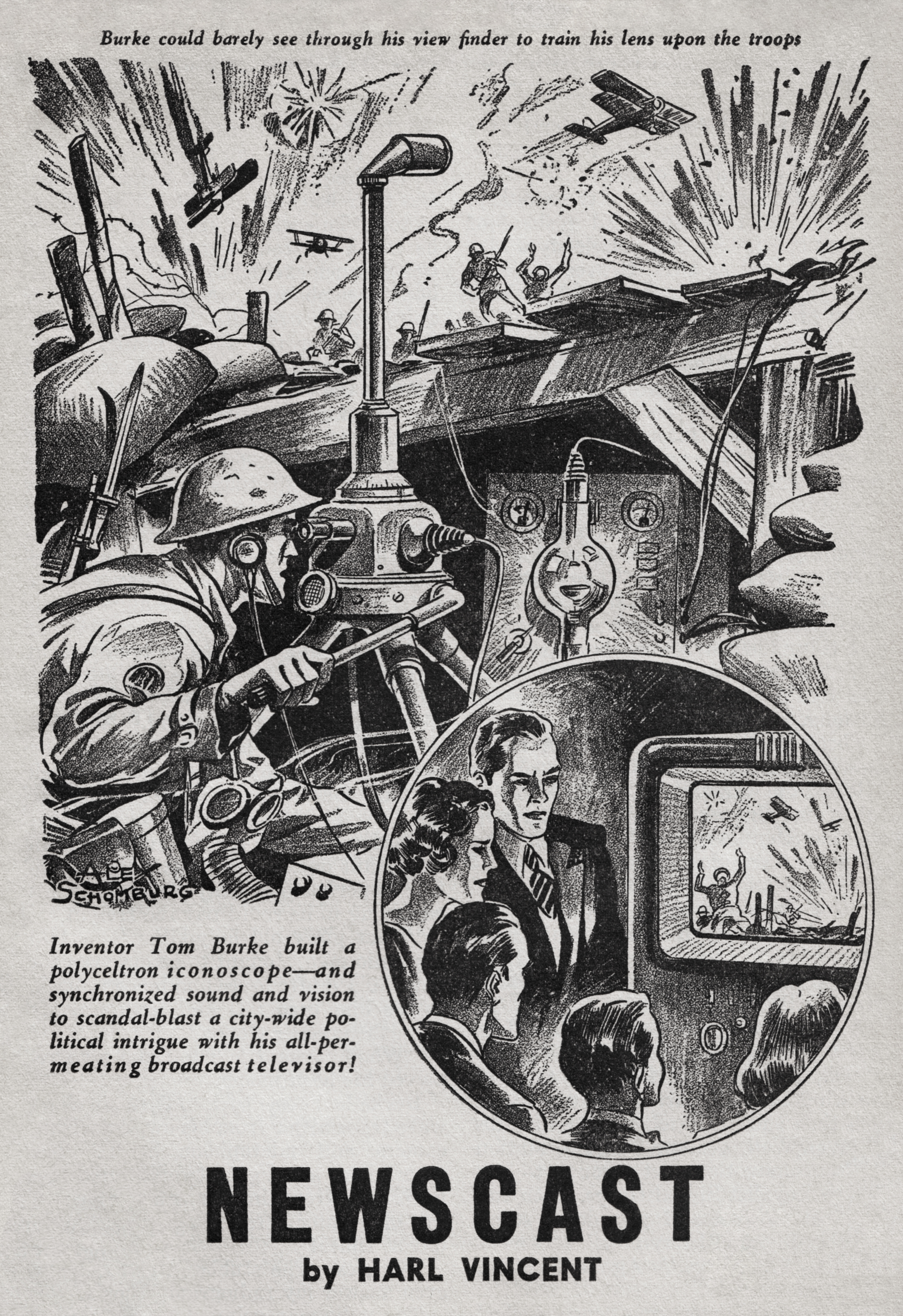 Interior illustration from the April-May 1939 issue of Marvel Science Stories for the story Newscast by Harl Vincent. Art by Alex Schomburg.